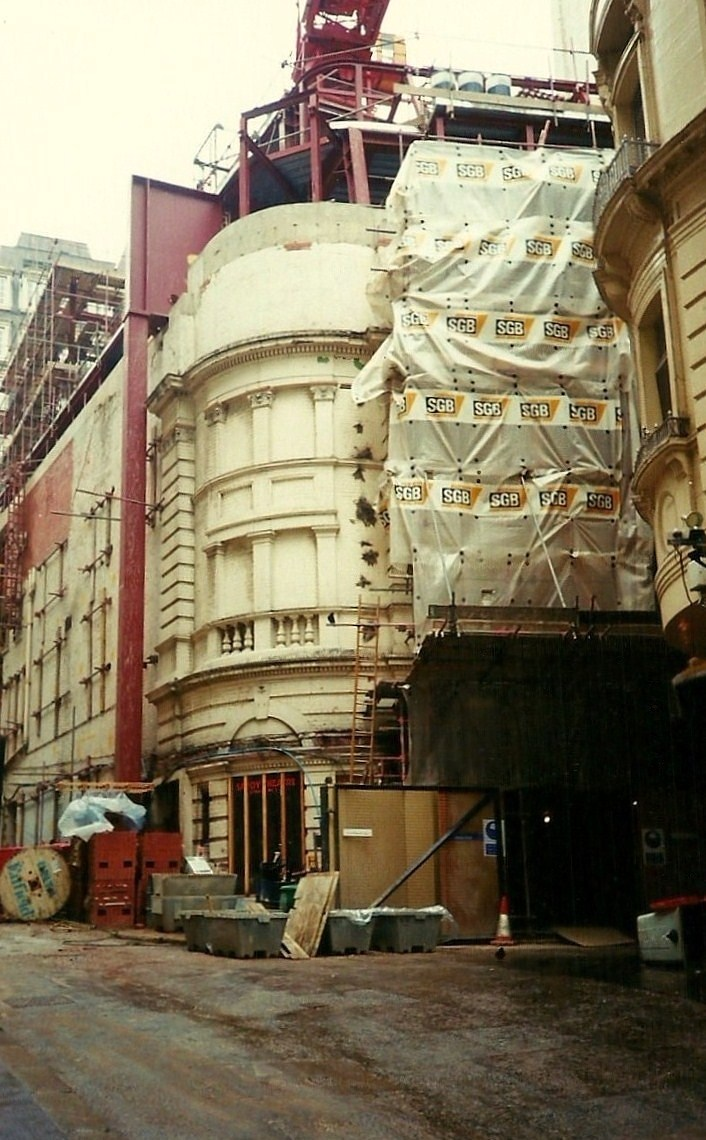 The Savoy Theatre saw extensive refurbishment during the early 1990s.